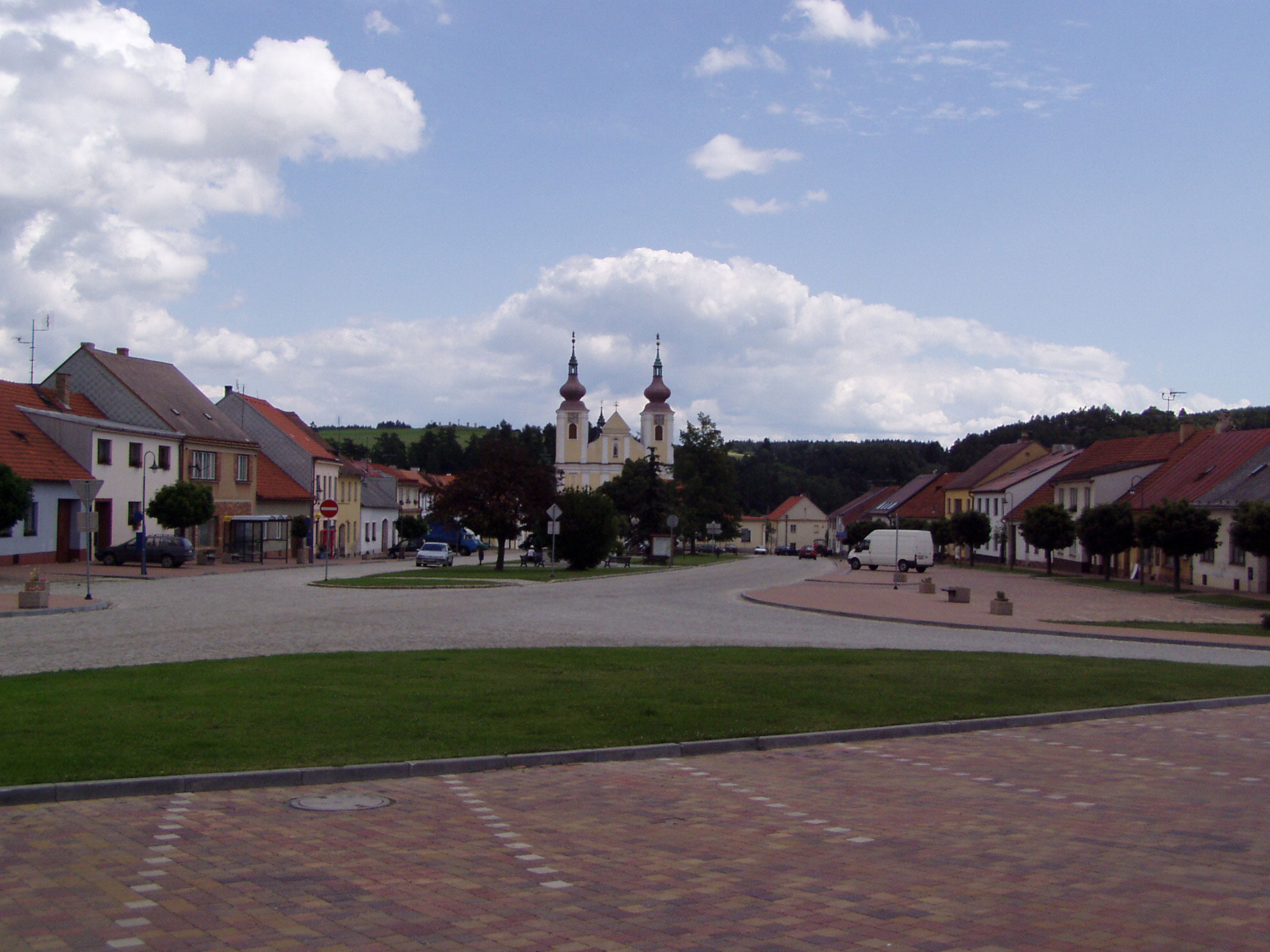 A square in Nova Rise village, Czech Republic.